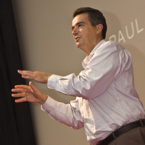 This image, from 2009, shows Paul Gilding giving a TEDx talk in New South Wales, Australia.